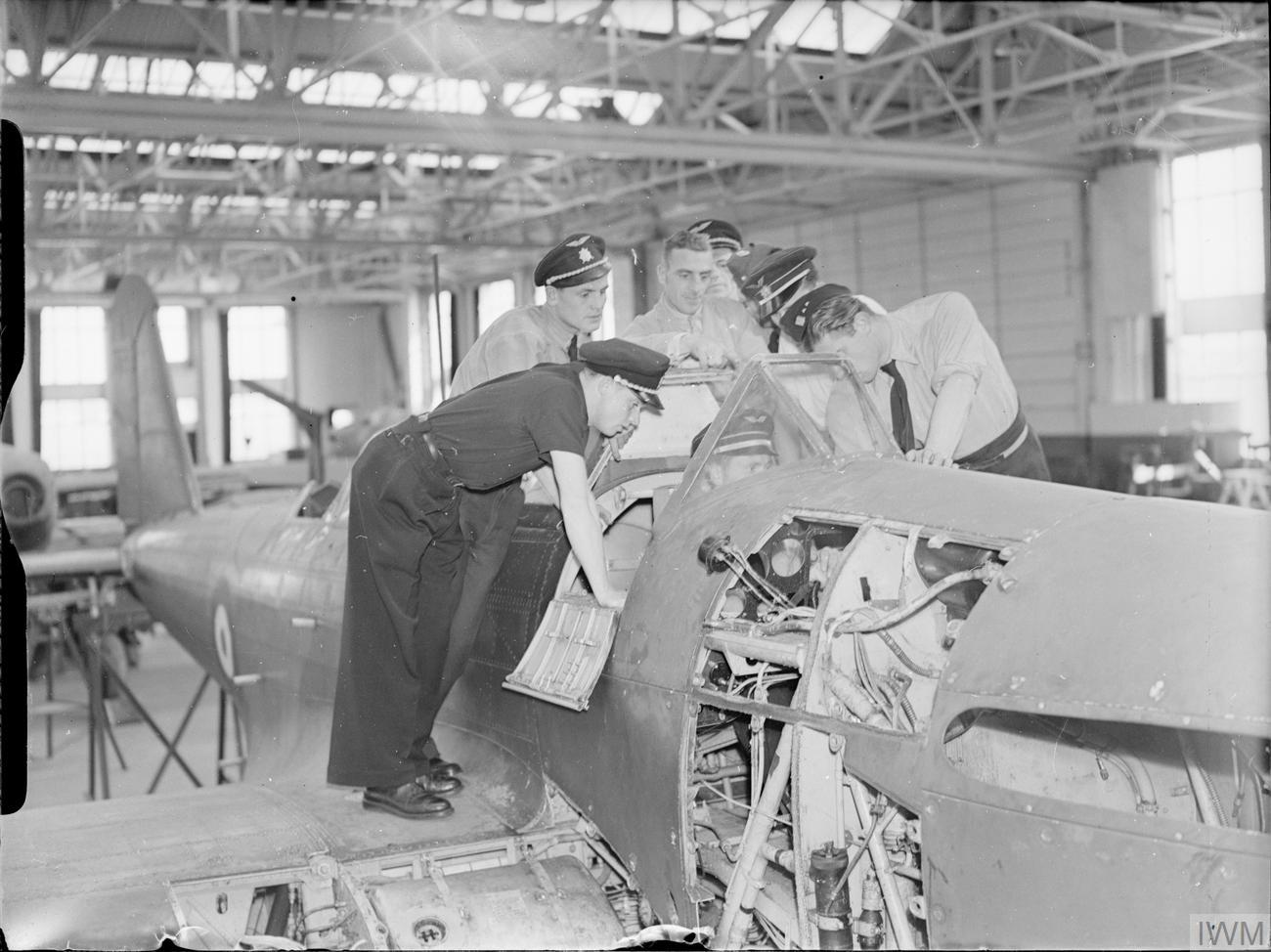 Royal Air Force- the Czechoslovakian Air Force in the United Kingdom, 1939-1945. A class of Czech airmen receiving a practical lecture on the engine controls of a Fairey Battle at No. 2 School of Technical Training at Cosford, Shropshire.